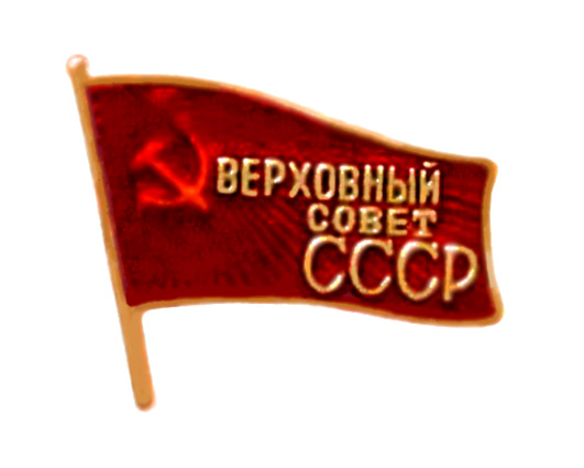 Badge Supreme Soviet of the Soviet Union